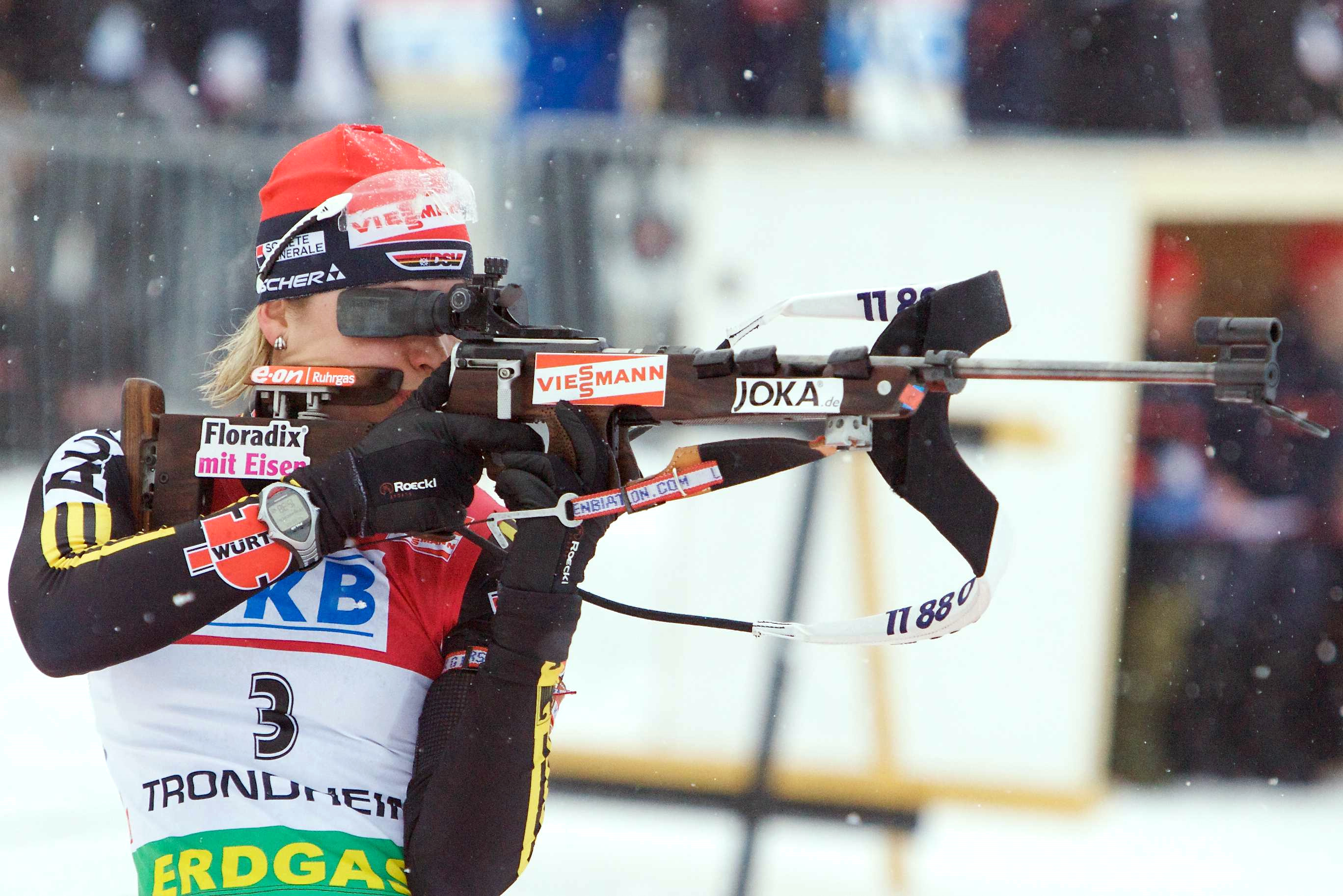 German biathlete Magdalena Neuner at the World Cup in Trondheim, Norway, March 2009